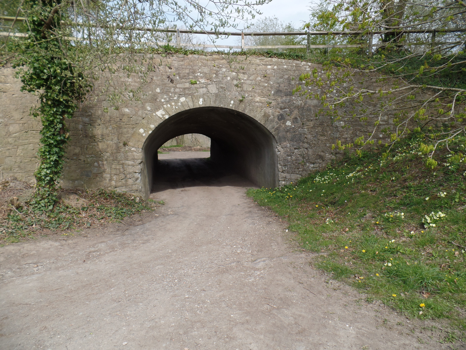 Bridge under the Ellesmere Canal used by the tramway to the Castle Lime Works near Froncysyllte, Wales (2019)